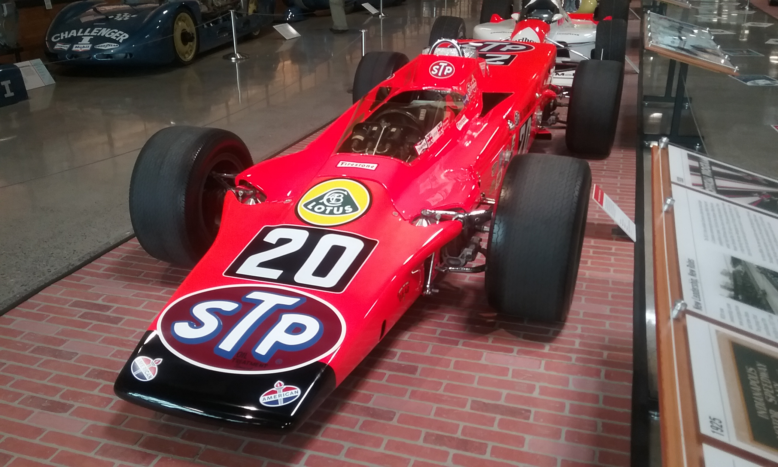 1968 Lotus Wedge Turbine on display at World of Speed Museum in Wilsonville, Oregon, USA as entered in the 1968 Indianapolis 500 as #20 sponsored by STP